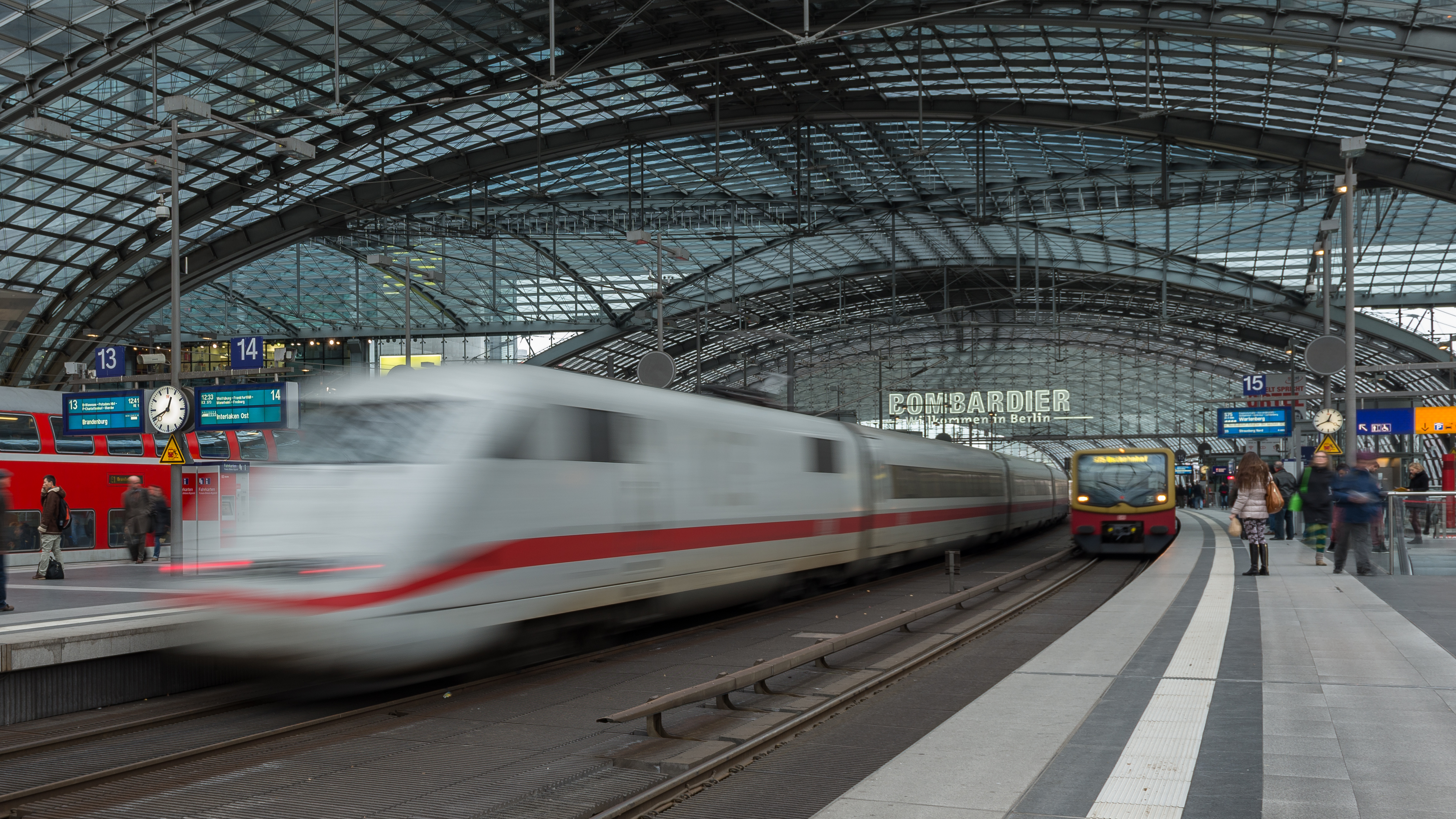 Berlin Hauptbahnhof (Berlin main station)